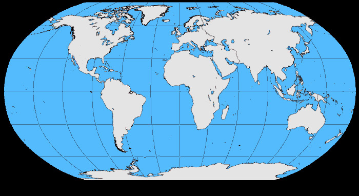 blank world mapTürkçe: Boş dünya haritası